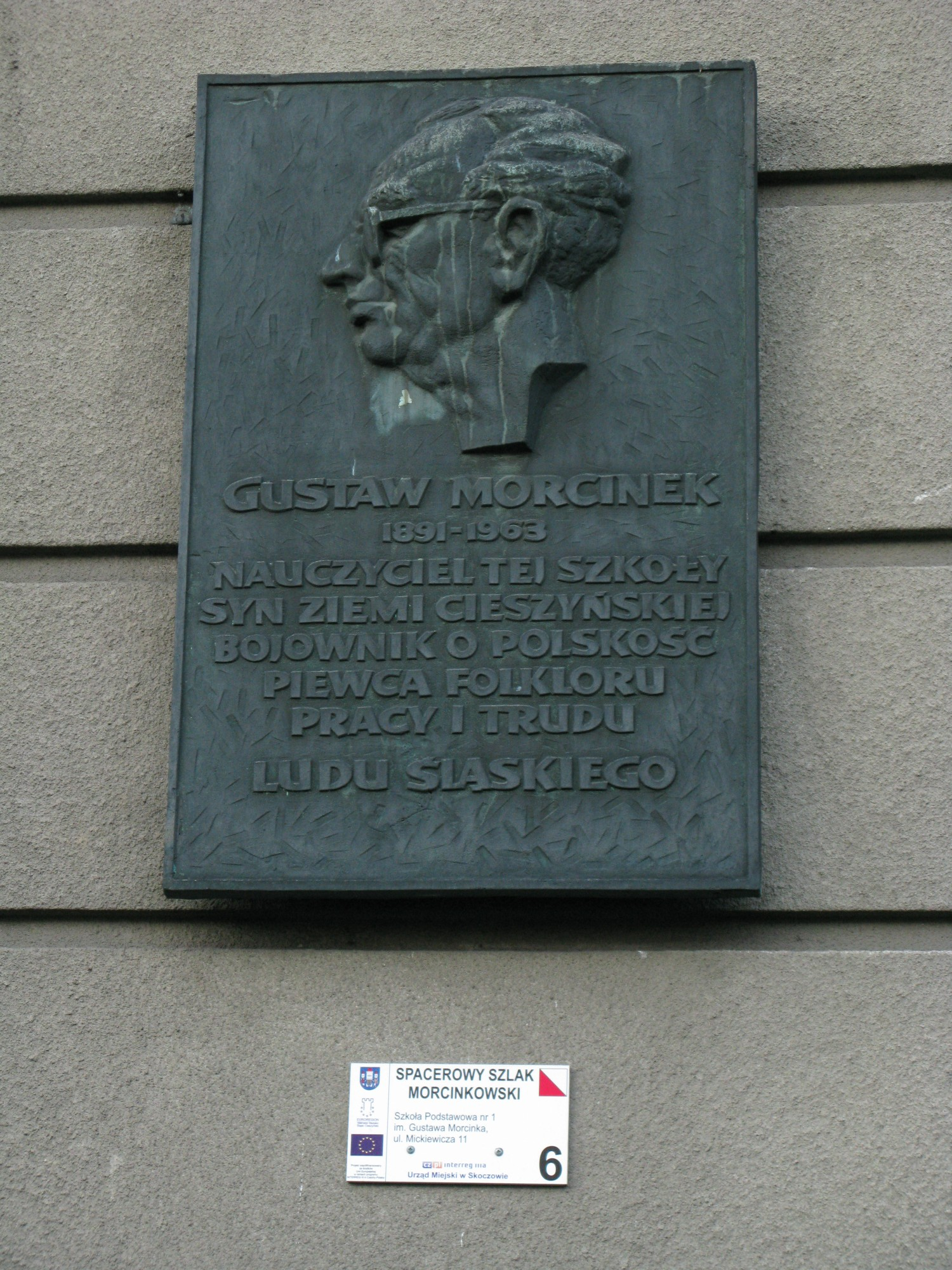 Gustaw Morcinek Elementary School No. 1 in Skoczow - a memorial plaque with a relief illustrating the bust of the patron